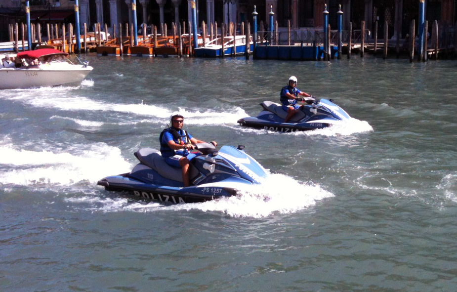 An Italian Police-Waterscooter (Personal water craft) in Venice